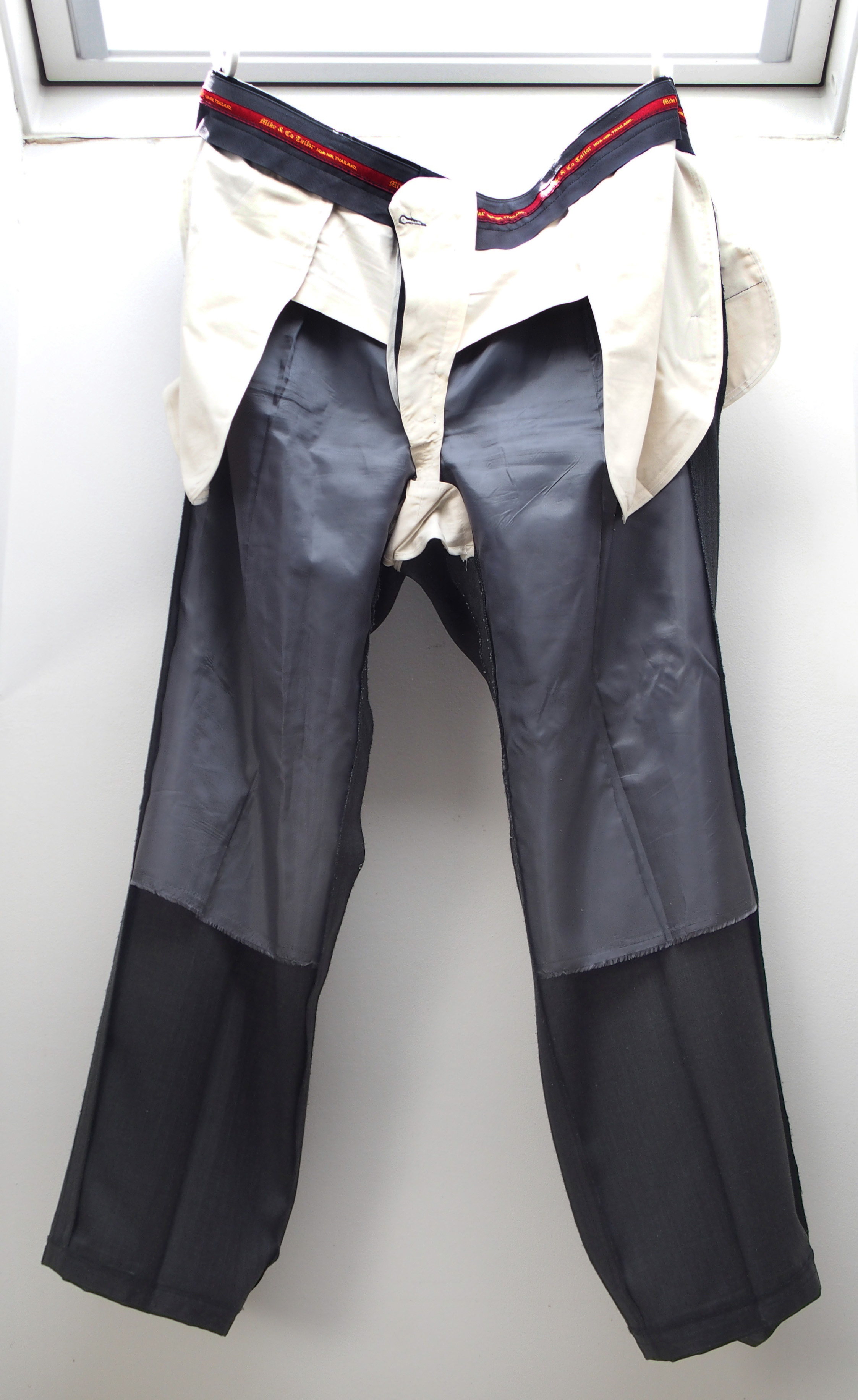 Pants of a tailored men's suit turned inside out to show linings.